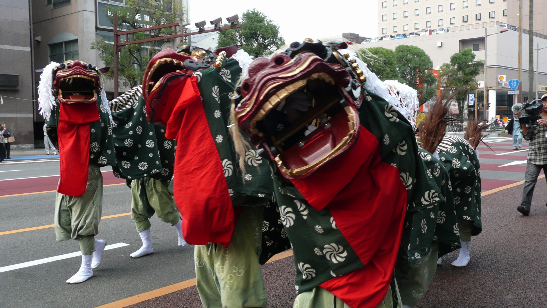 Miyazaki Shrine Grand Festival in 2008 - Lion Dance.